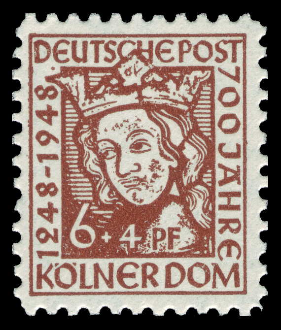 700 years of laying the foundation stone of the Cologne Cathedral (1248-1948) Graphics by Wolf Ausgabepreis: 6+4 Pfennig First Day of Issue / Erstausgabetag: 15. August 1948 Michel-Katalog-Nr: 69 (Alliierte Besetzung - Bizone)